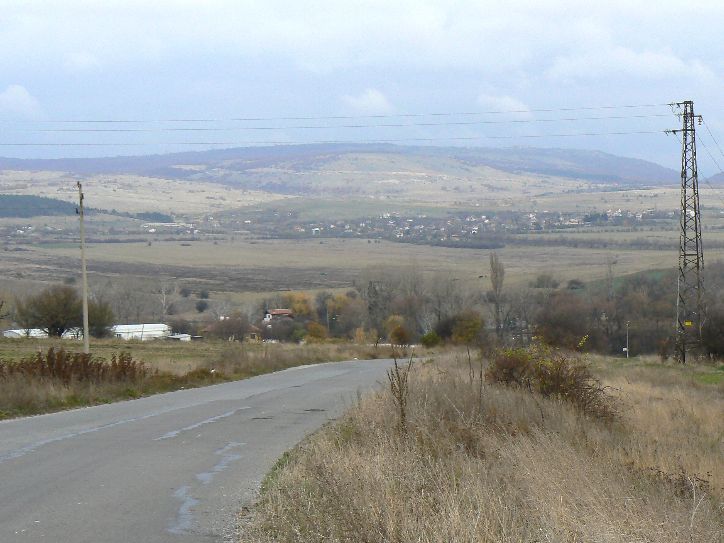 Distant view to village Bogyovtsi, Bulgaria